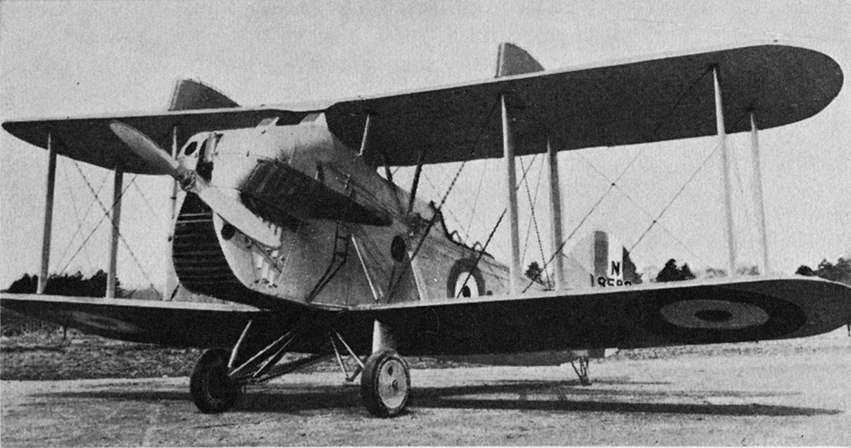 Blackburn Blackburn dual control trainer of British Fleet Air Arm